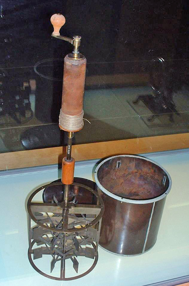 Joules Heat Apparatus 1845, Science Museum, London. 02-Jan-06.